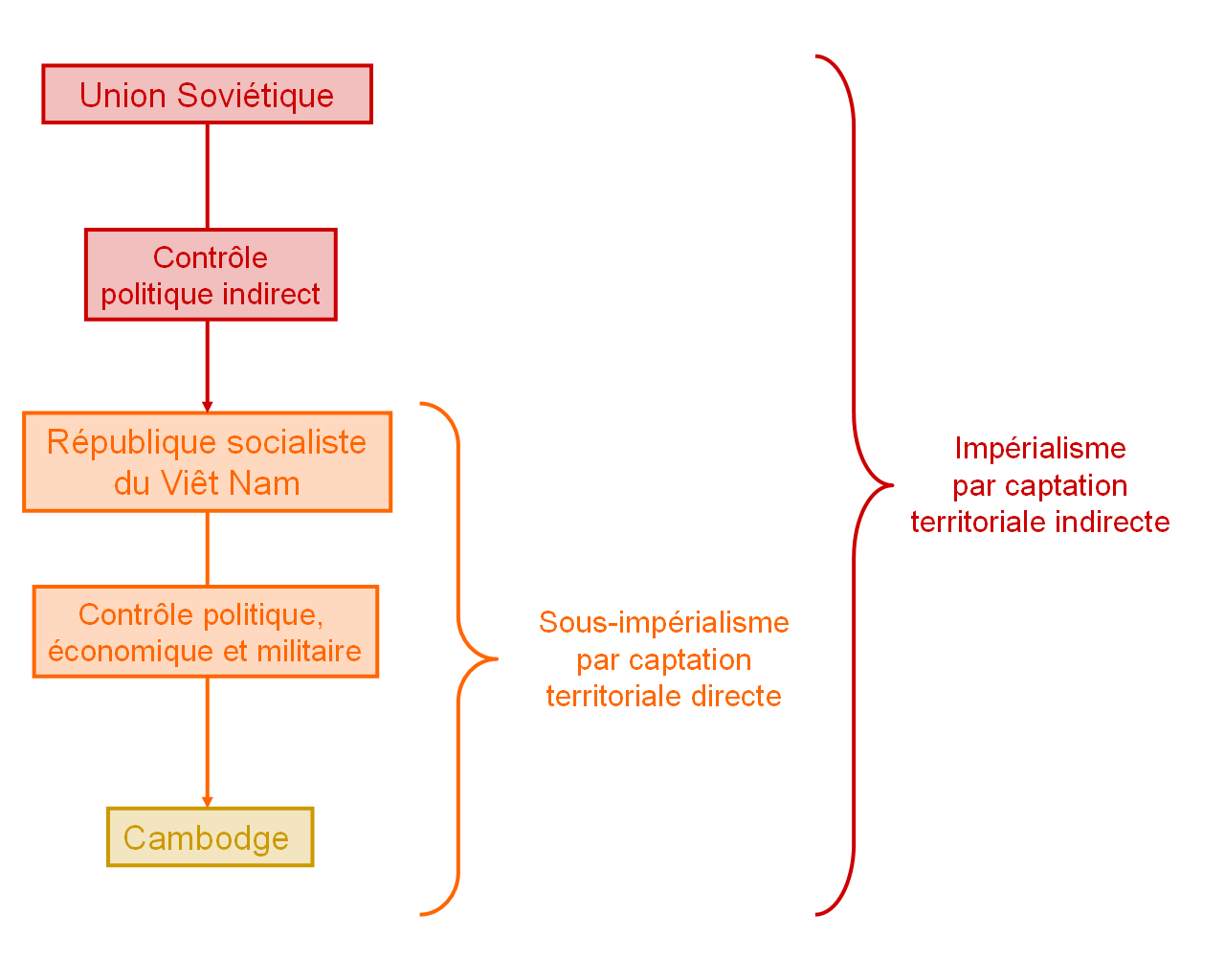 Imperialist model, with sub-imperialist constituent by illegal securement territorial direct, of control with indirect territorial illegal securement by political control.